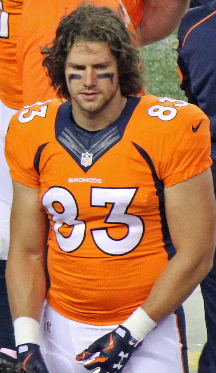 Jake Murphy, a player on the National Football League.